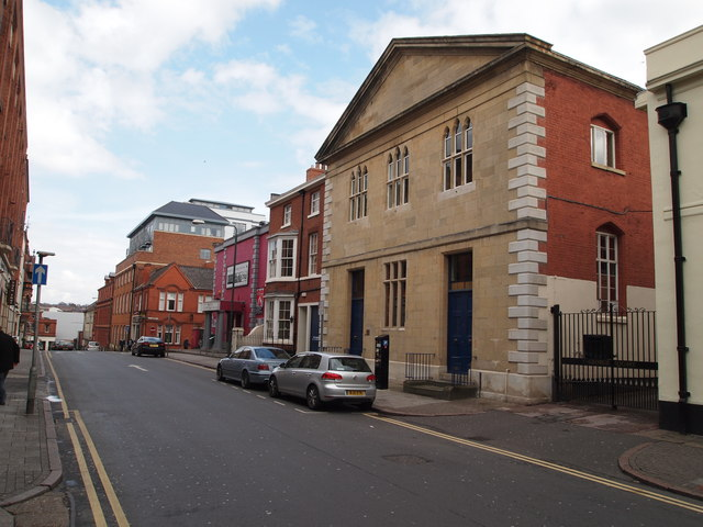 Nottingham - NG1. A view along George Street from its Carlton Street end looking in the direction of Lower Parliament Street. The Arts Theatre is situated halfway down on the right-hand side.